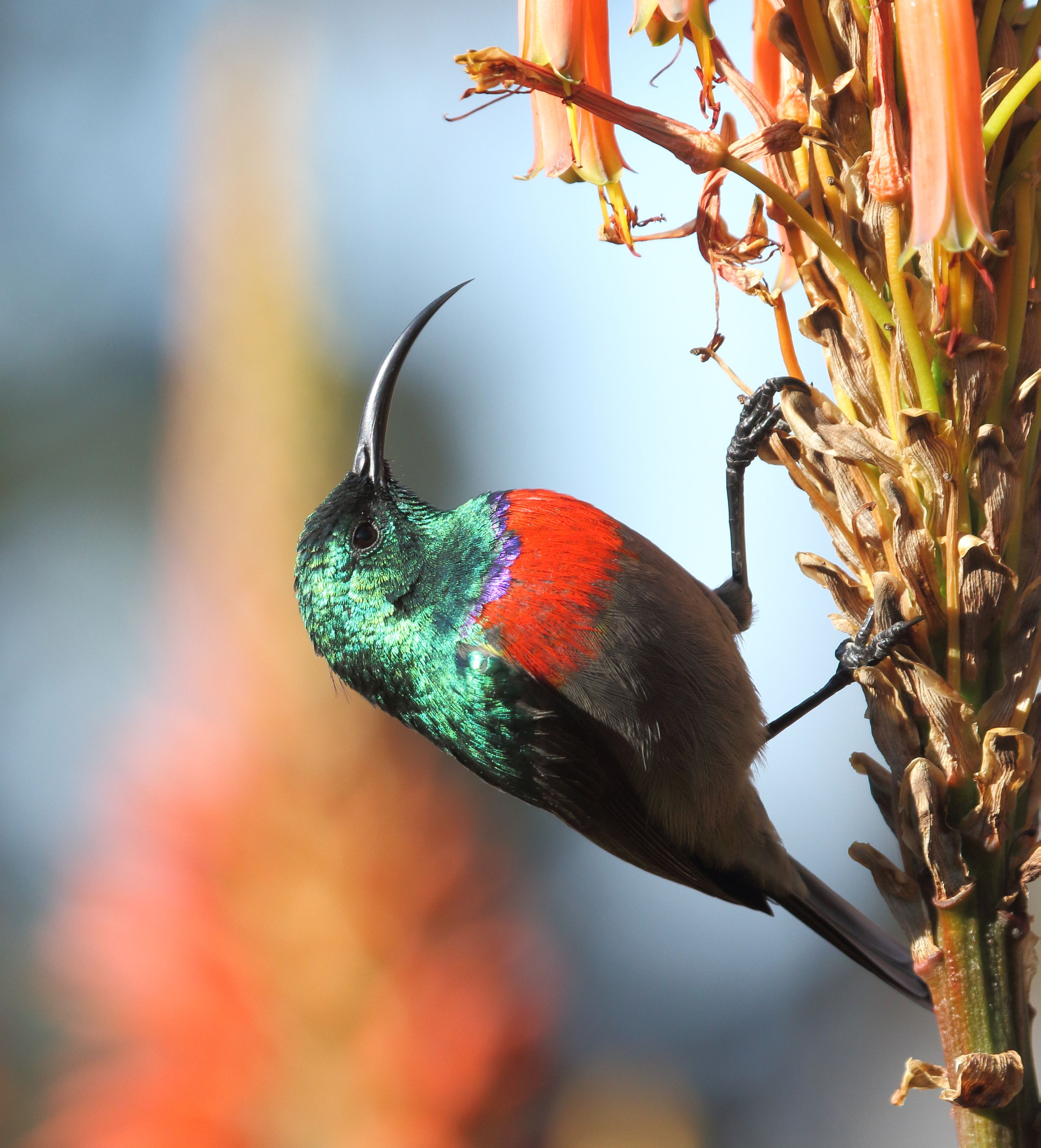 Male southern double-collared sunbird (Cinnyris chalybeus) at Fort Nottingham, KwaZulu-Natal.